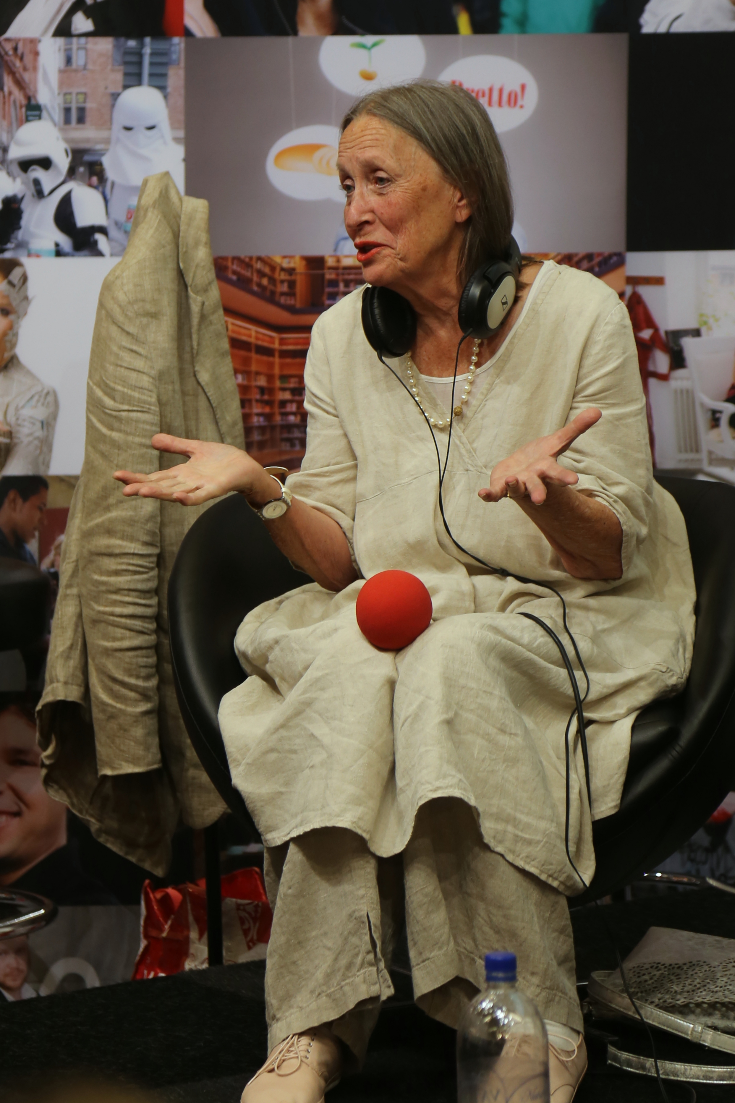 Inger Hayman at the Gothenburg Book Fair 2014.